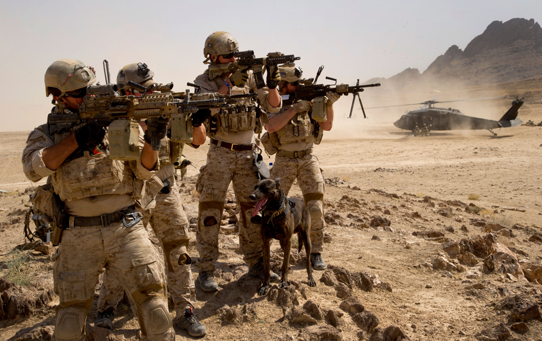 U.S. Navy SEALs, in Afghanistan. Behing, a UH-60 Black Hawk dropping off personnel (Shah Wali Kot District, Kandahar province).